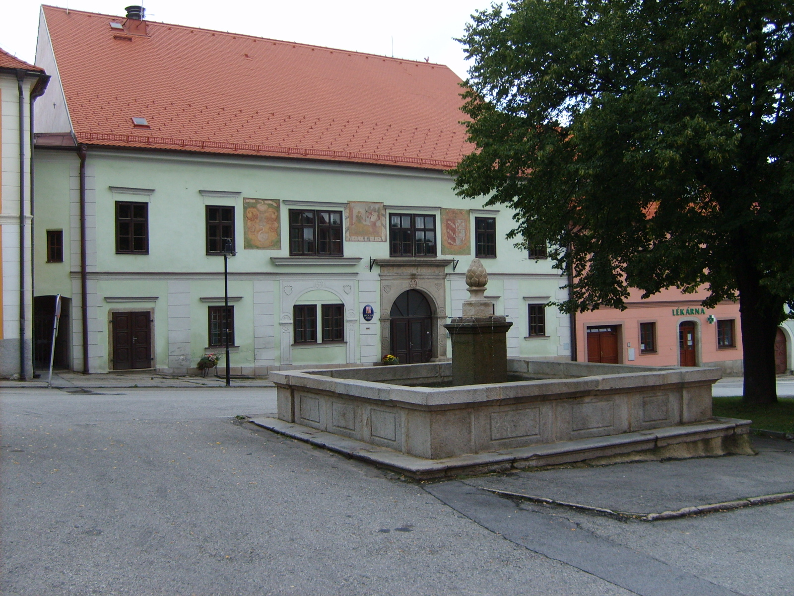 Townhall in Benešov n.Černou